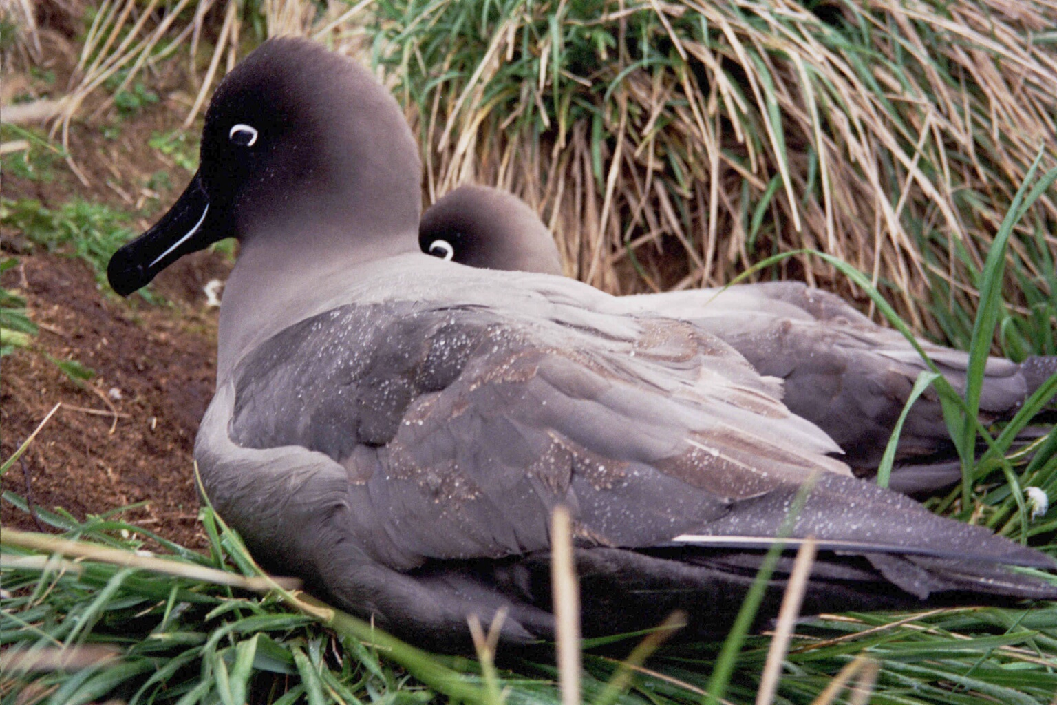 Light-mantled Albatross at Gadget's Gully